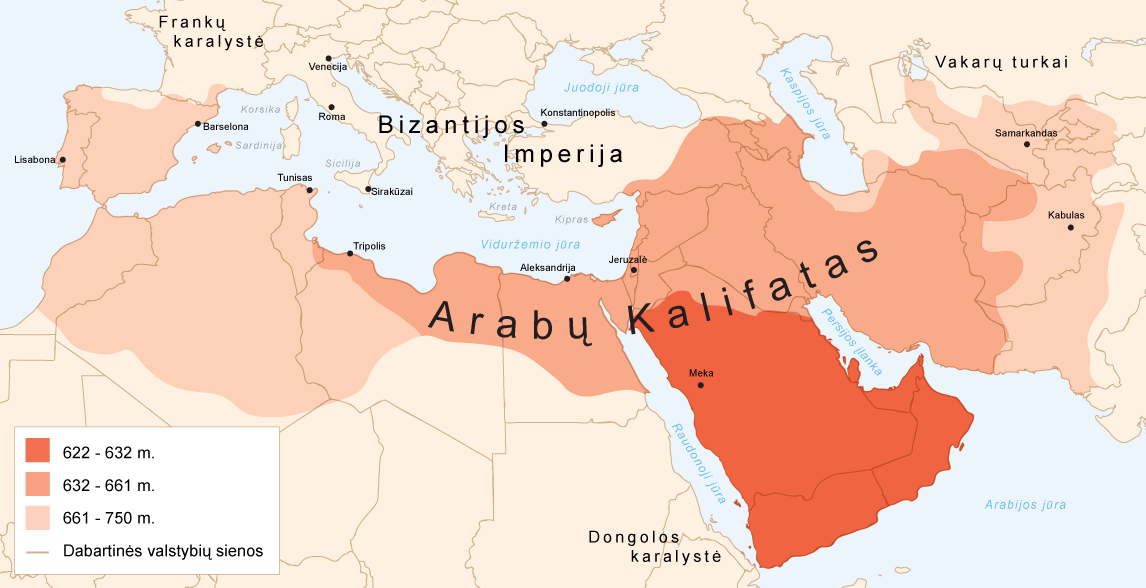 Age of the Caliphs